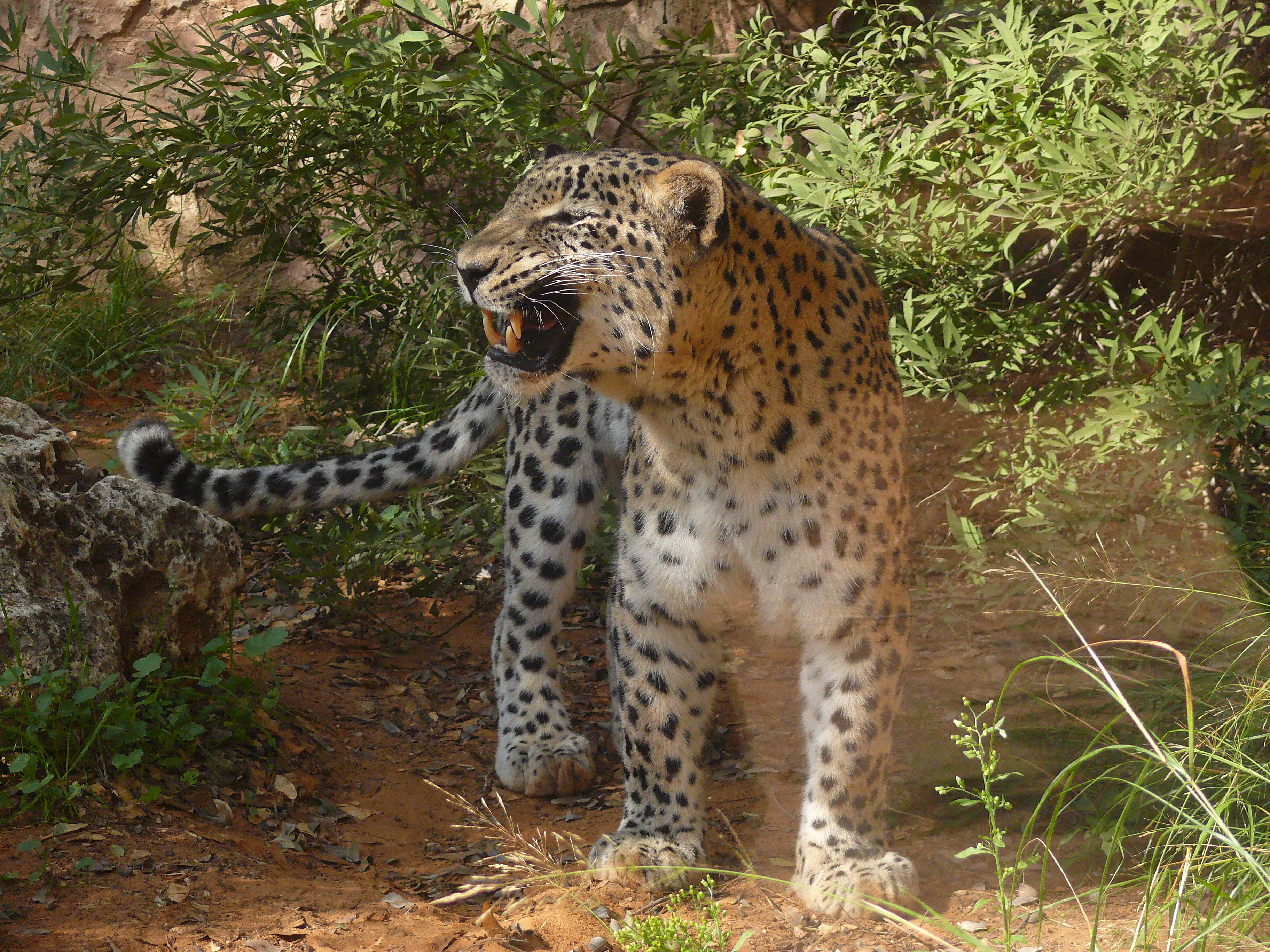 Persian Leopard (Panthera pardus saxicolor), Safari Ramat Gan, Israel